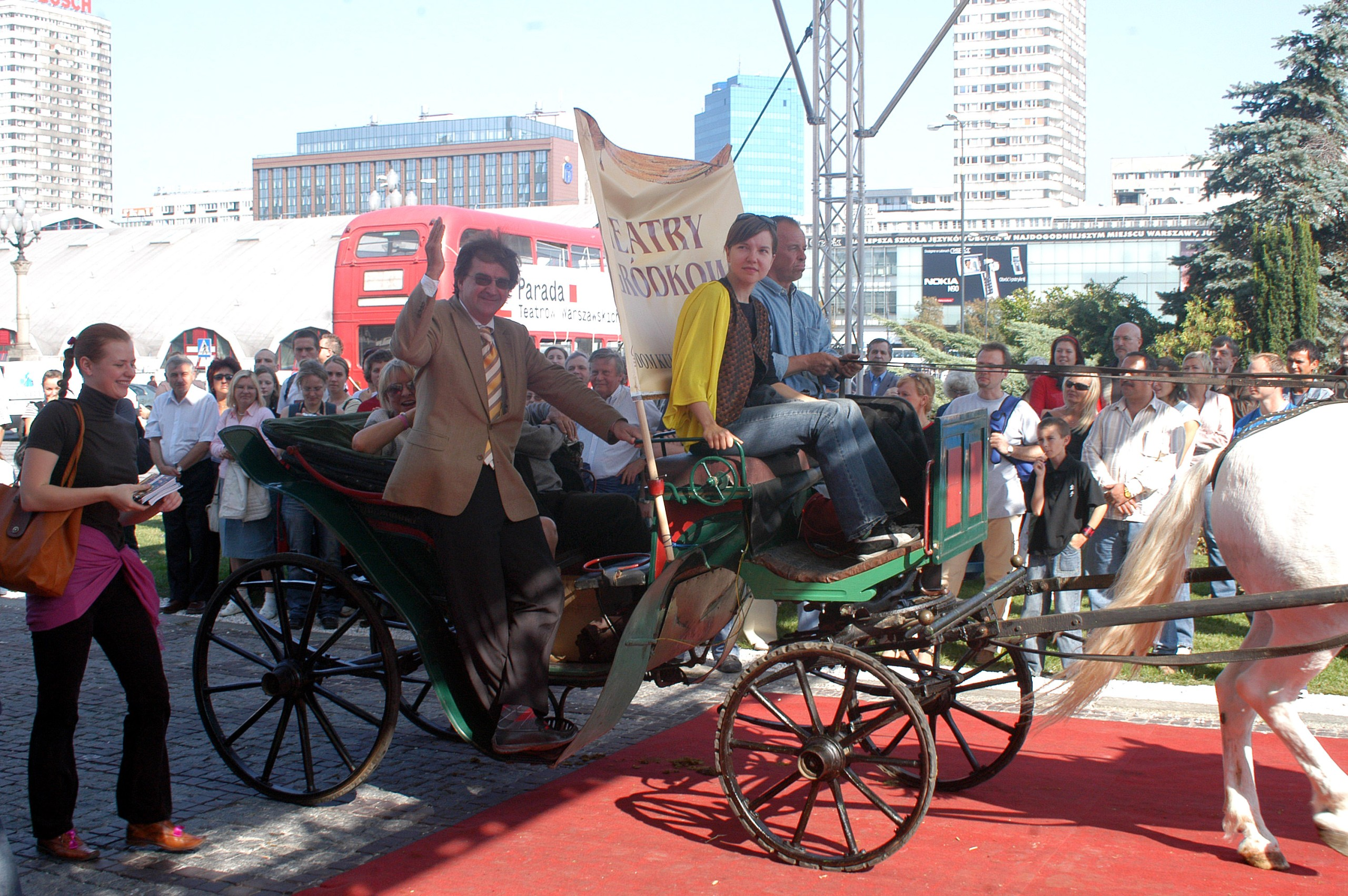 Warsaw Theatre Parade